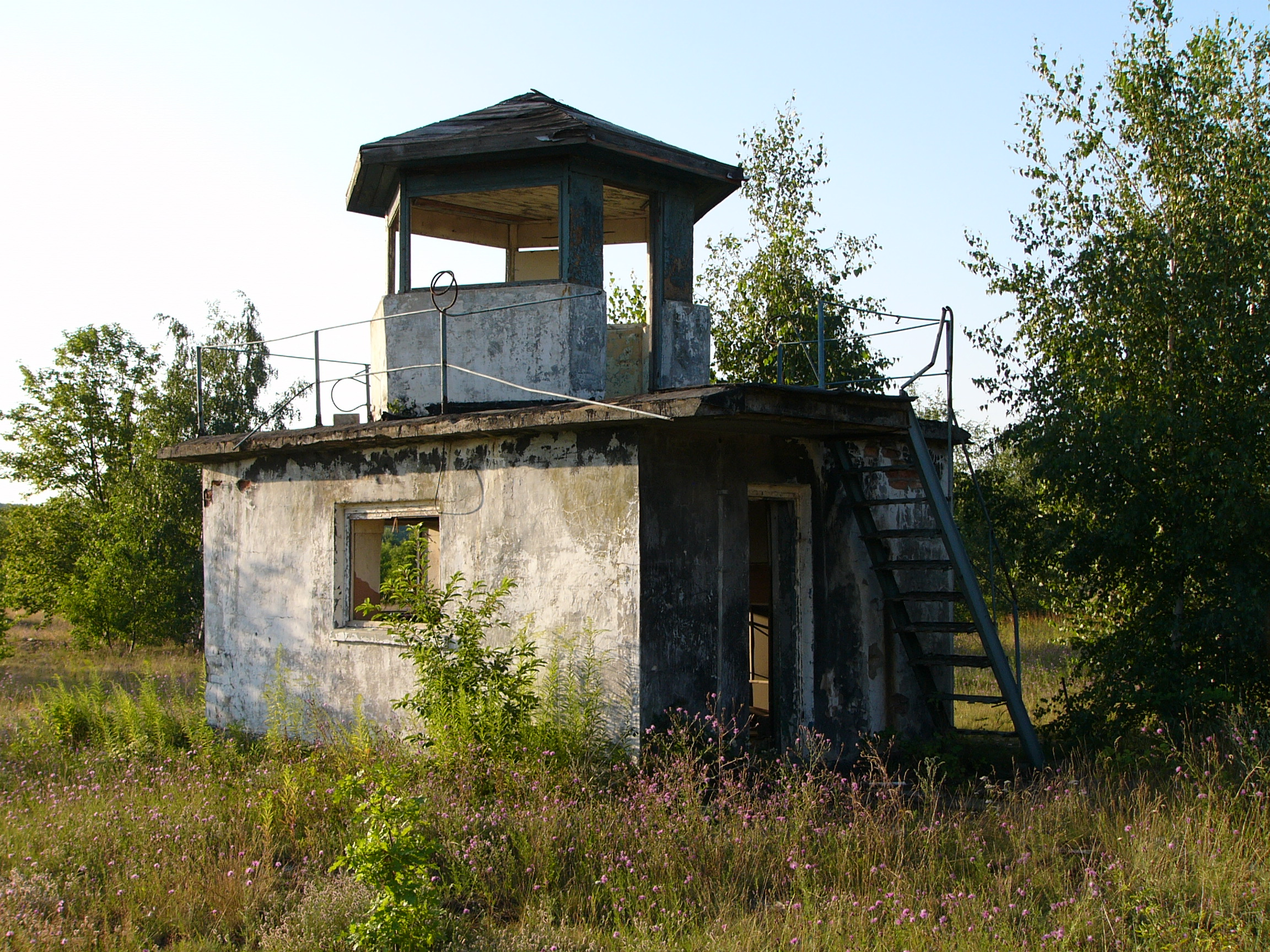 second Tower of military Airfield Dresden Heller